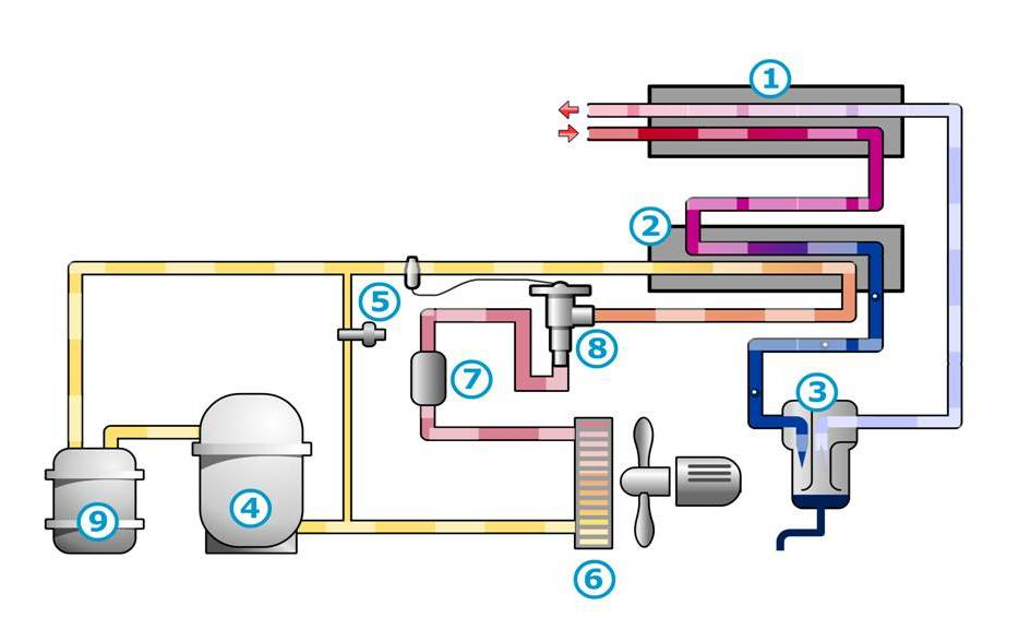 Refrigerant cycle